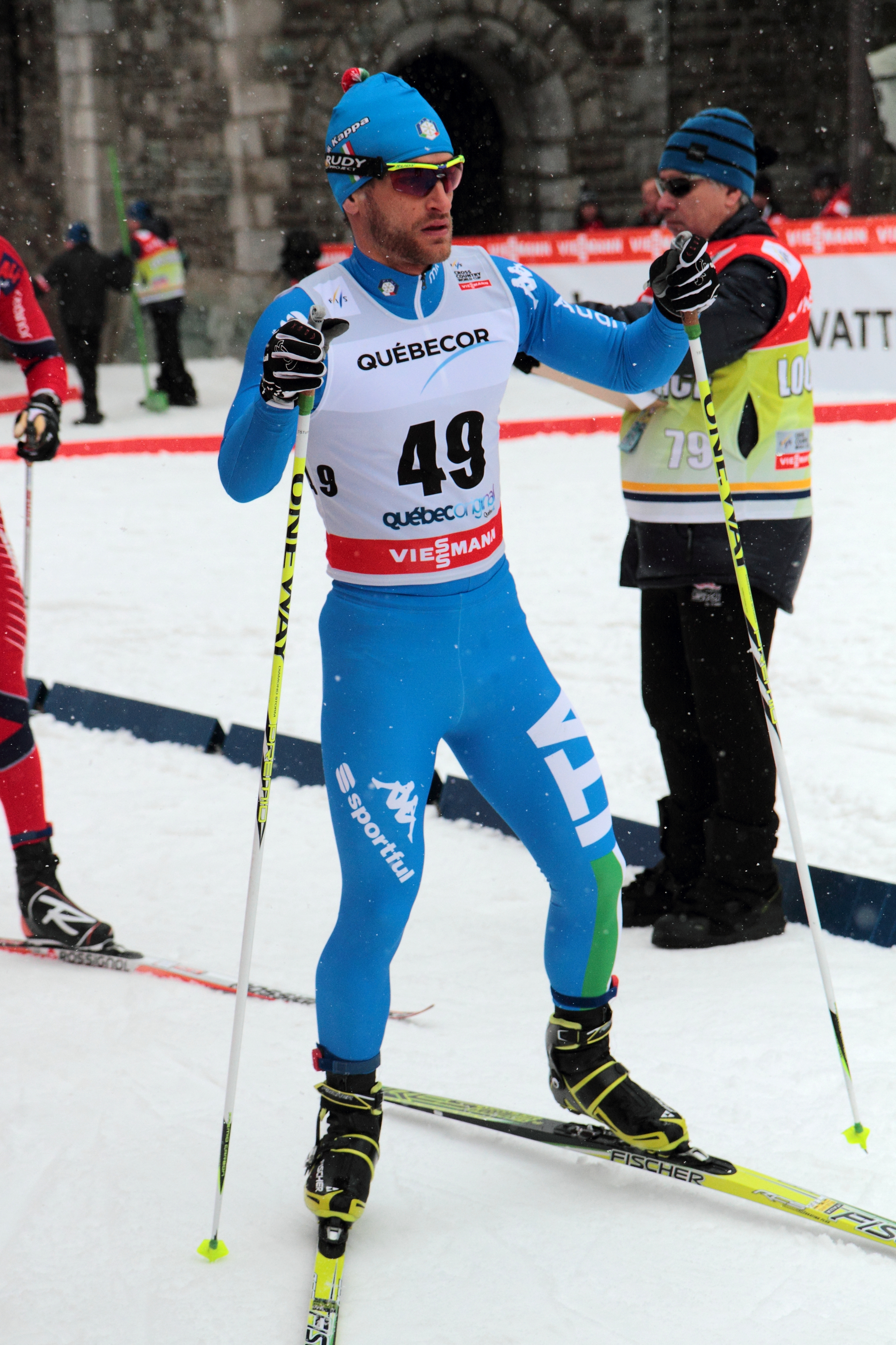 Fulvio Scola, FIS Cross-Country World Cup 2012, Quebec, Canada.